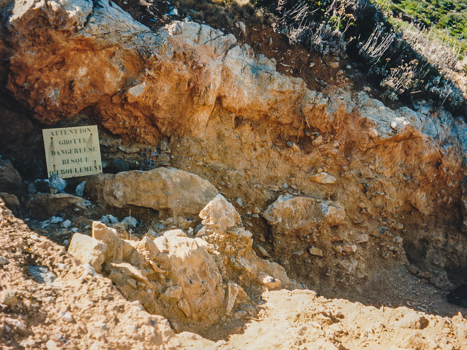 Pleistocene sediments filling a small cave at the Coscia archaeological site (A Coscia, Macinaggio, Rogliano, Haute-Corse) in Corsica, september 1998